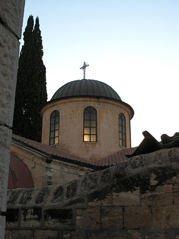 Dome of Greek Orthodox church at Cana